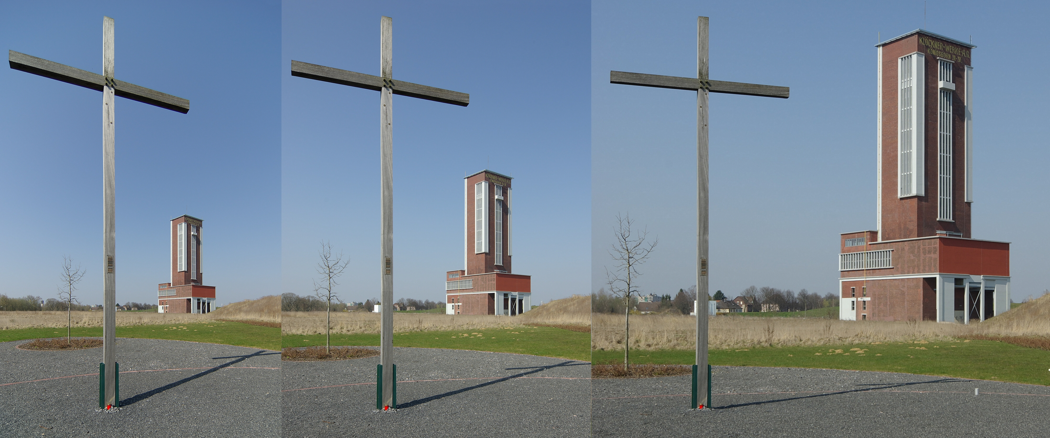 Former Headframe "Königsborn 3/4" in Bönen, Germany. On the occasion of World Youth Day 2005, a place for prayer was designed with a wooden cross on that site. The collage shows this cross in approximately same size, but photographed from different distances with different focal length resp. angle of view. Focal length are approx. 18mm, 28mm, and 60mm equivalent to 135 film (24 x 36 mm).